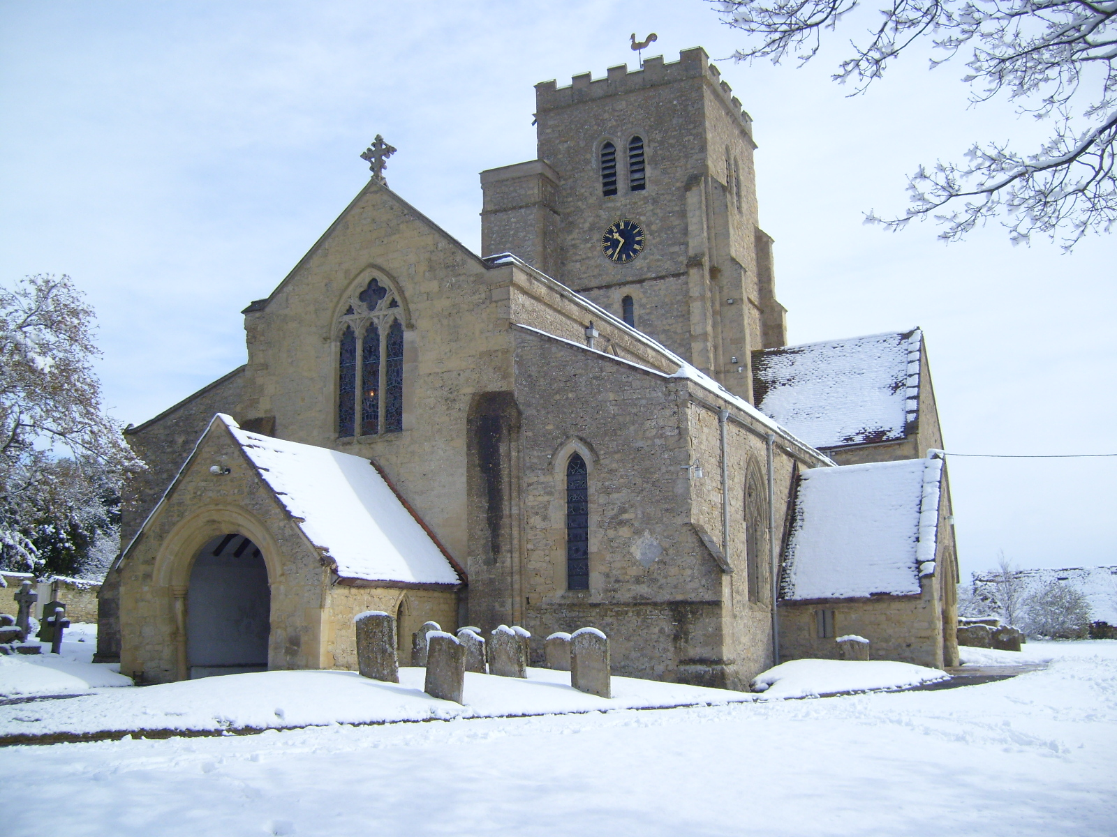 Church of England parish church of All Saints, Cuddesdon, Oxfordshire, seen from the southwest in snow